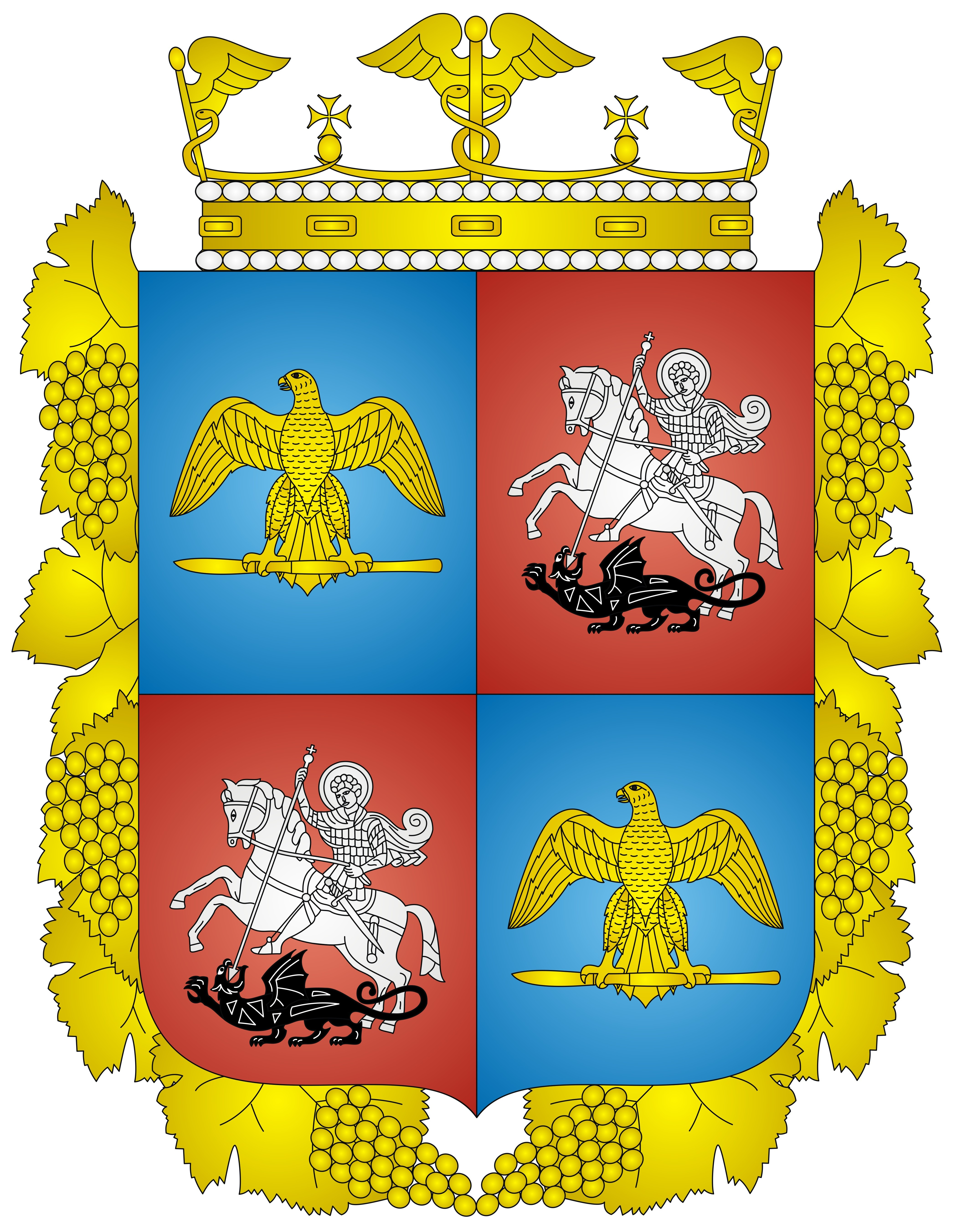 Personal Coat of Arms of Omari Isidorovich Miminoshvili